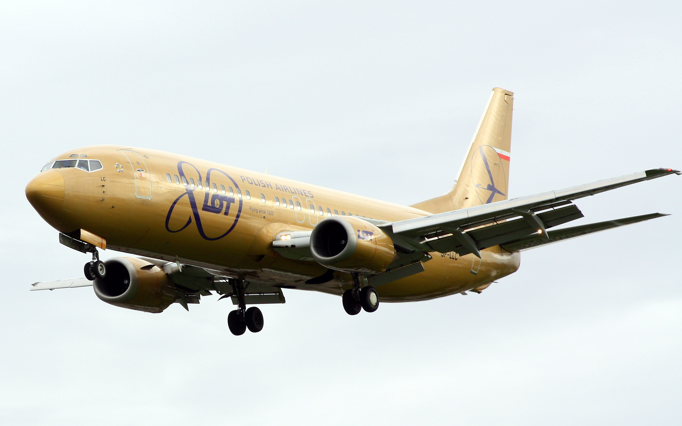 LOT Polish B737-400 SP-LLC, in special livery.